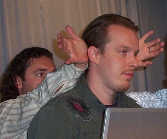 Norman Cöster and Tommy Krappweis, taken at 1. Fantreffen von Bernd das Brot